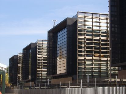 Picture of the Clarive office park in Alcobendas, Spain